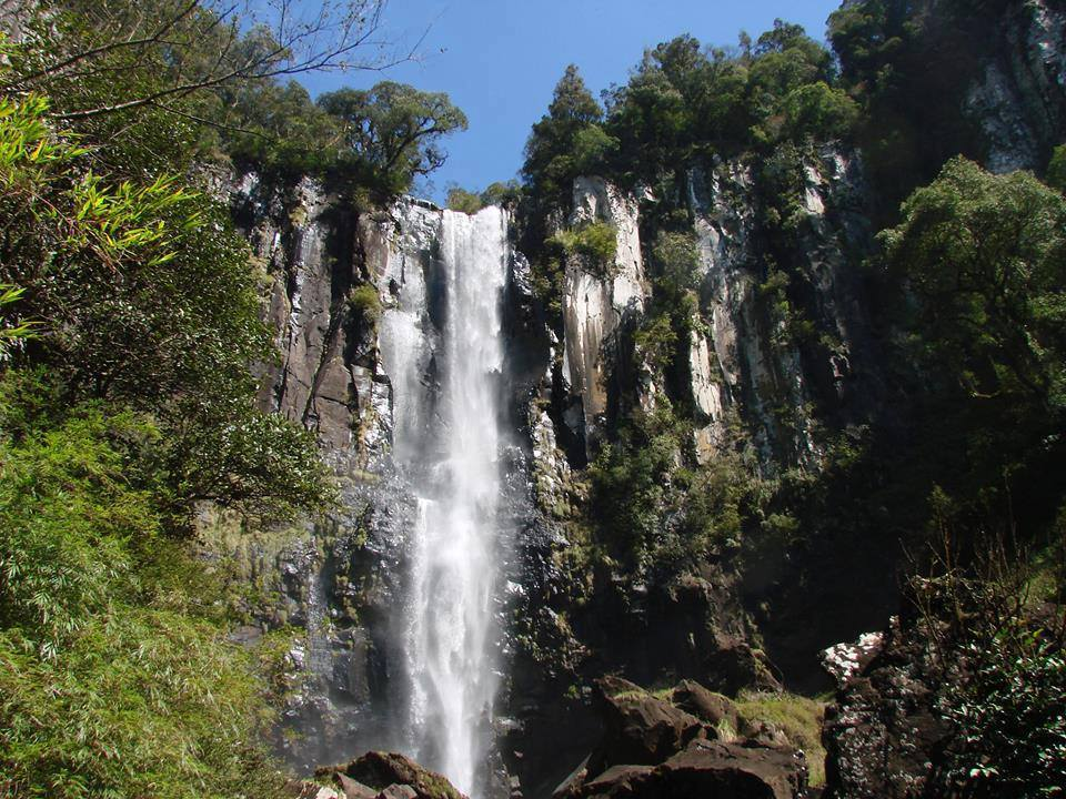 São João waterfall, located on the São João river in the escarpment of the Hope with approximately 84 meters of height BR 277 between Guarapuava and Prudentópolis.